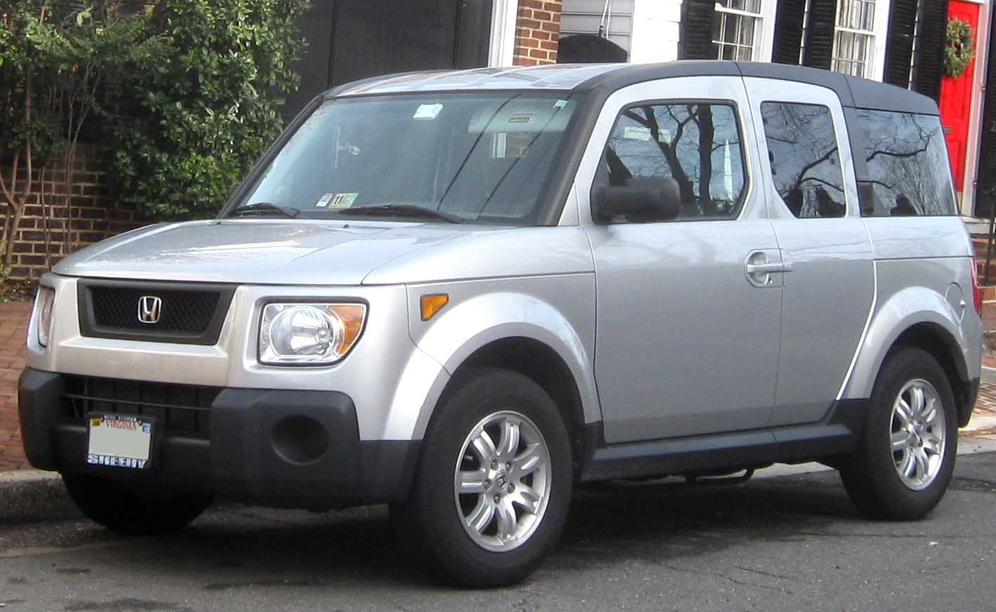 2006 Honda Element photographed in Alexandria, Virginia, USA.